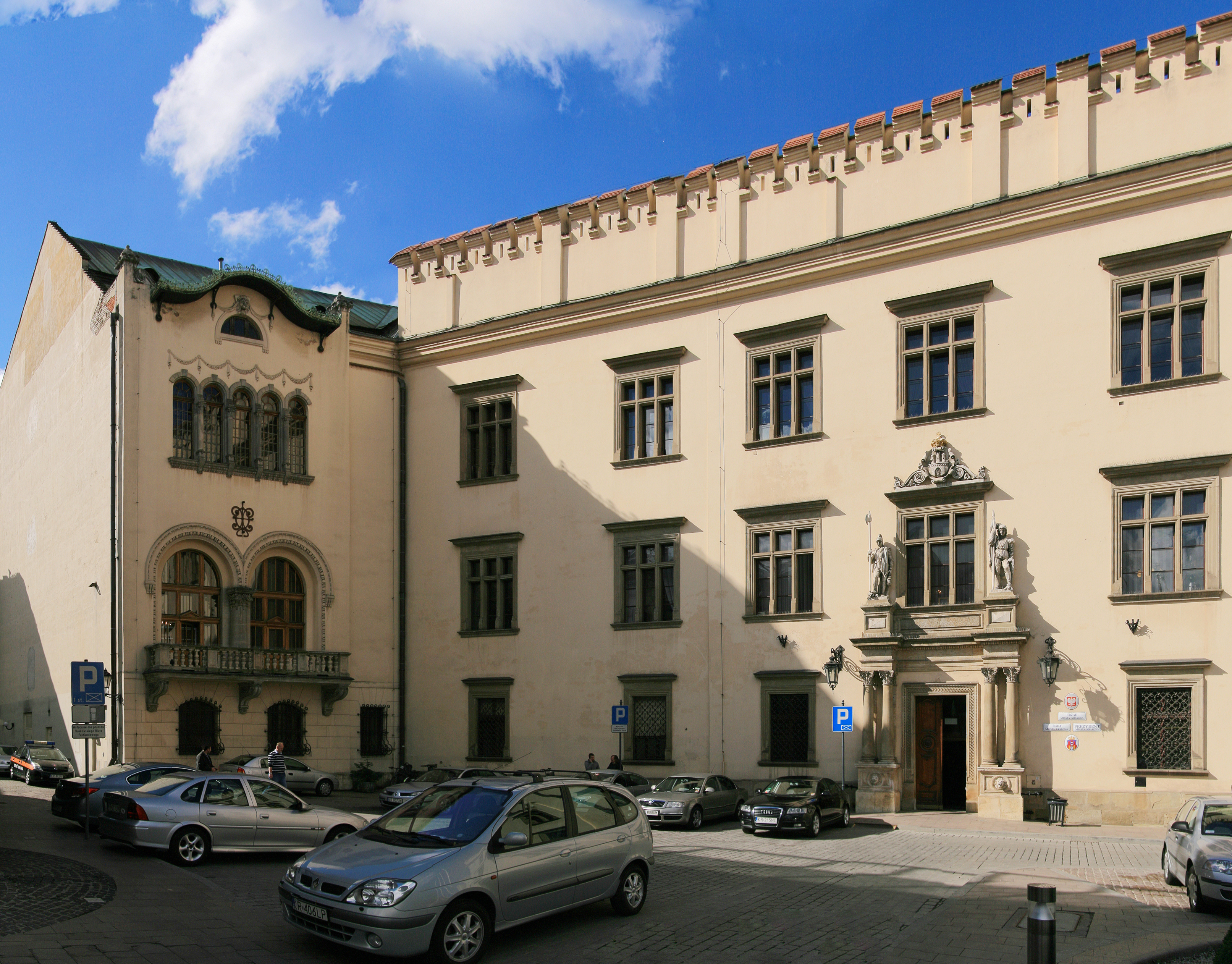 Wielopolski Palace, Krakow